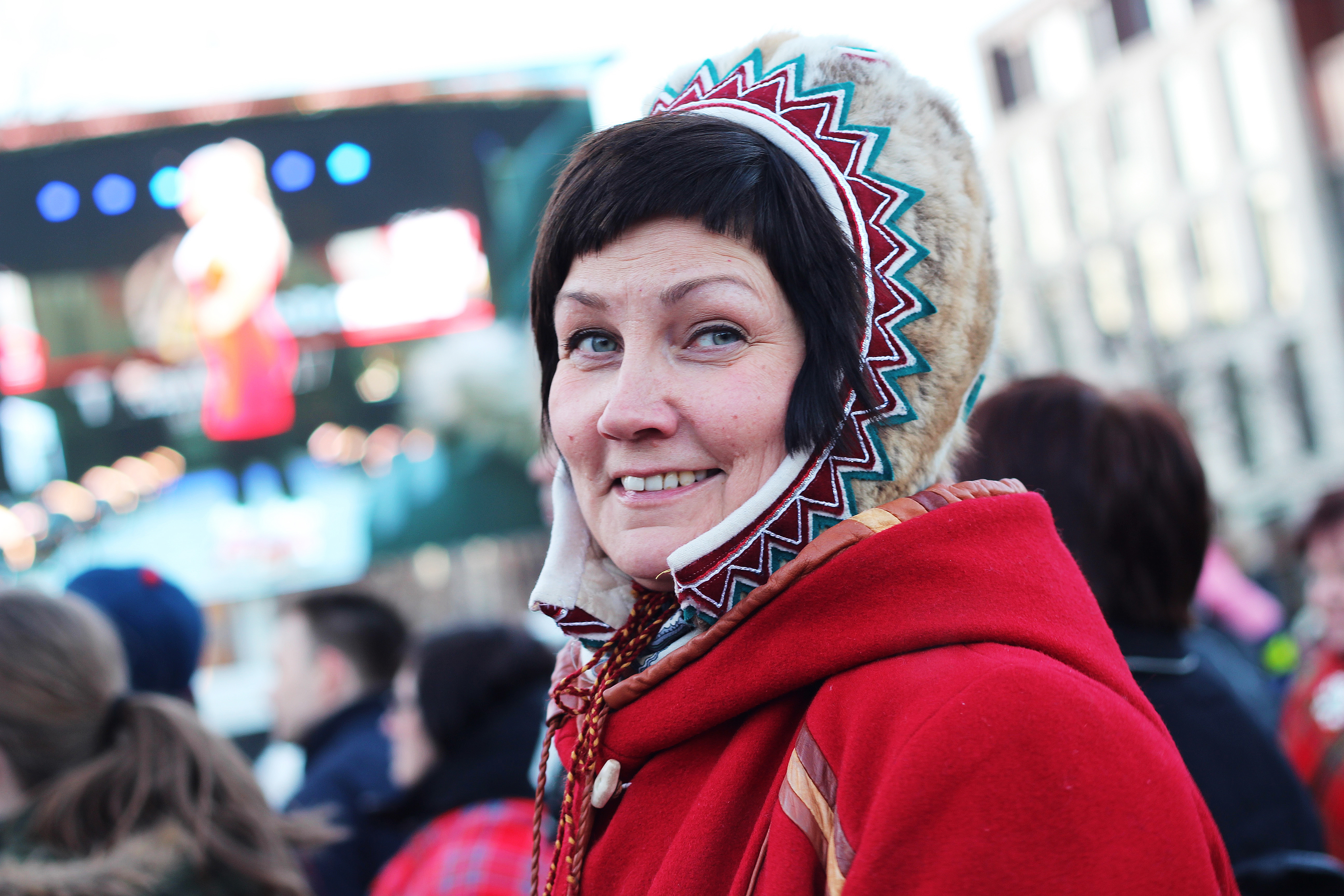 Aili Keskitalo, head of the main committee for the jubilee Tråante 2017, as a spectator for the fashion show at Torget in Trondheim. "Fashion in Sápmi" was held at Torvscenen, an ice cold february day.